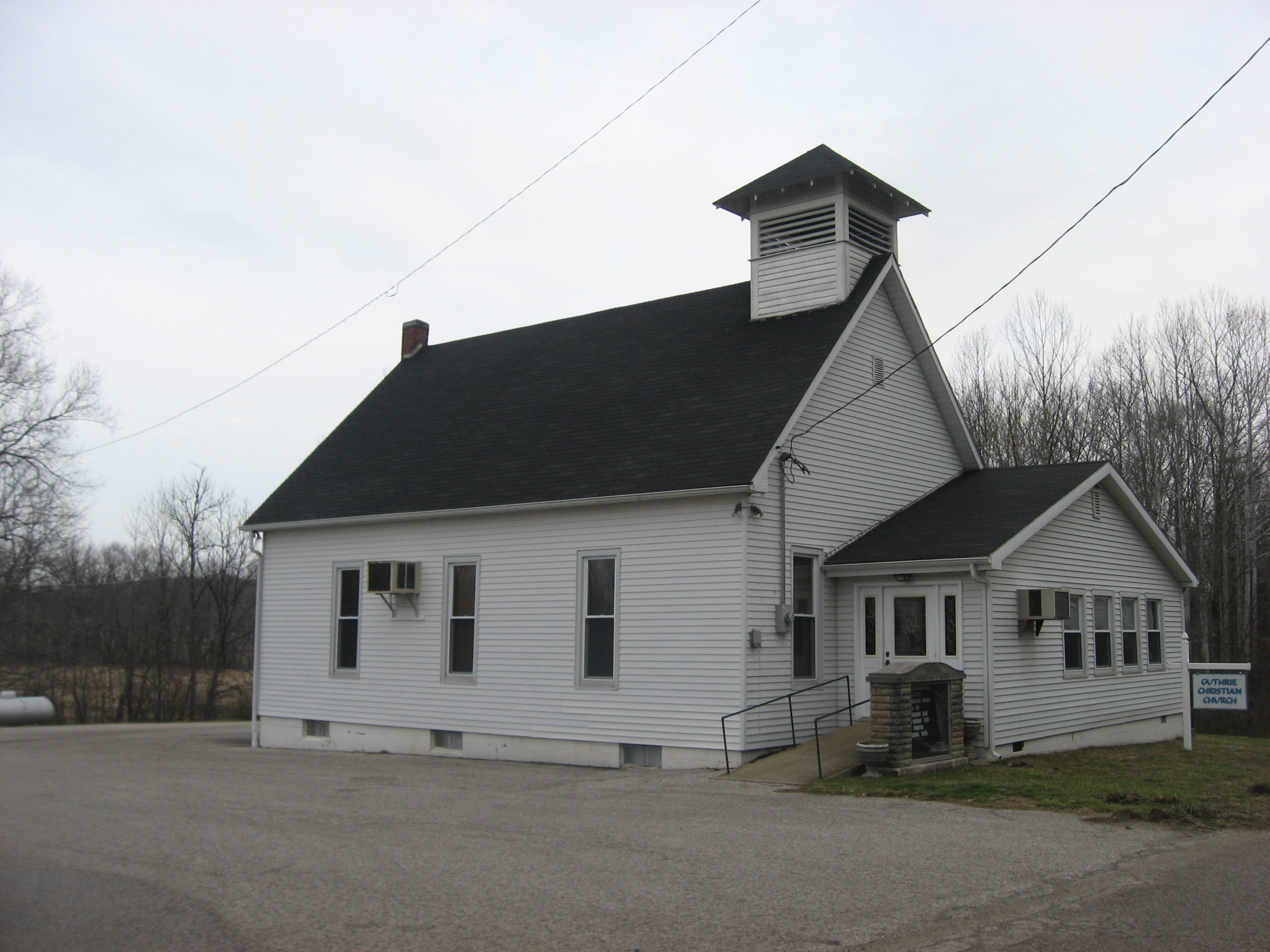 Front and western side of Guthrie Christian Church, located on Guthrie Road at Guthrie in Marshall Township, Lawrence County, Indiana, United States. It was built in 1900.